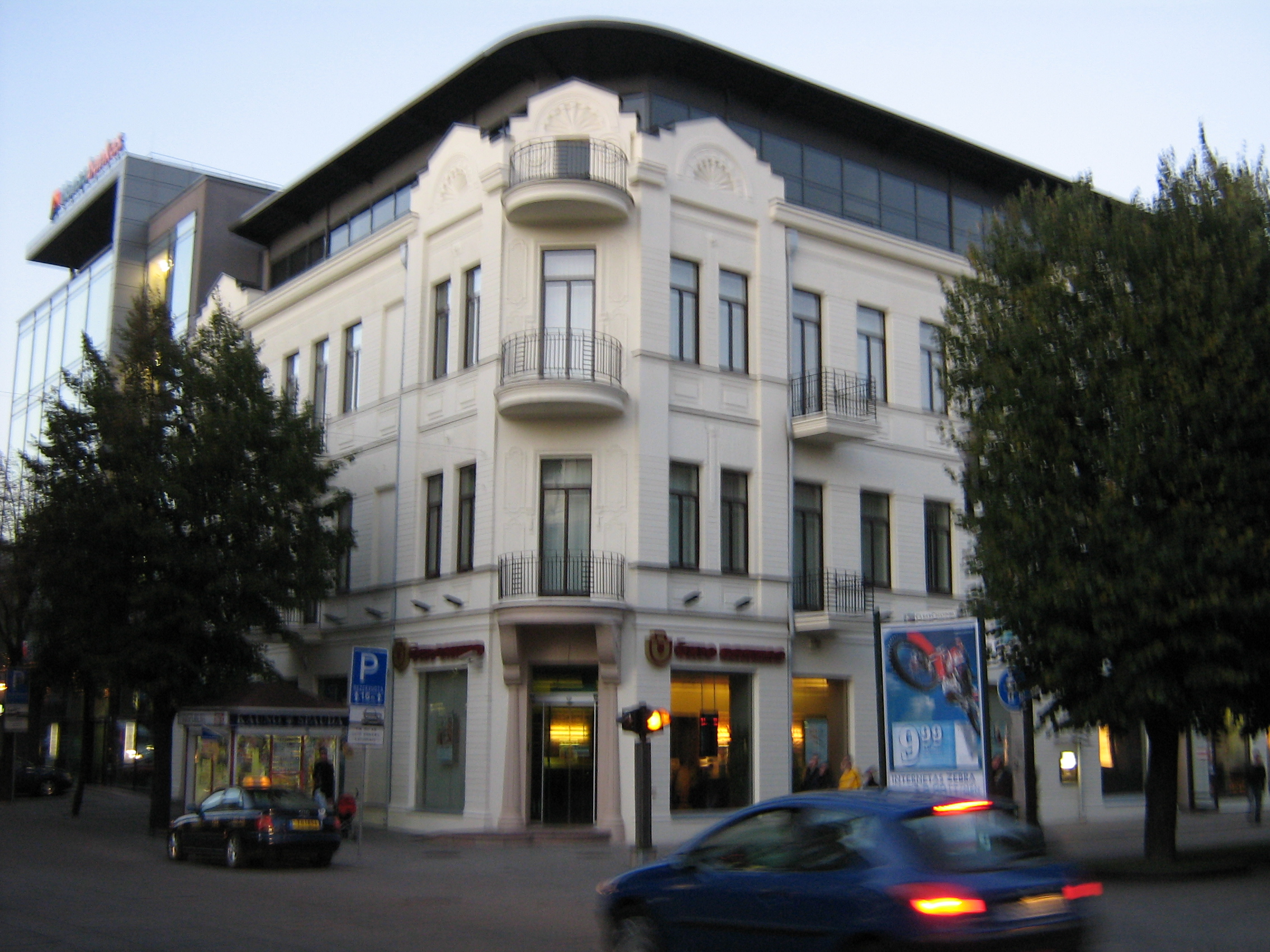 Branch of Šiaulių Bank in Laisvės av, Kaunas.